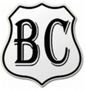 Logo of British Club, a former football club in the early years of the football development in Mexico.